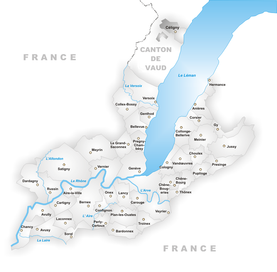 Copy of Image Carte_Commune_Céligny.png, with a correct naming